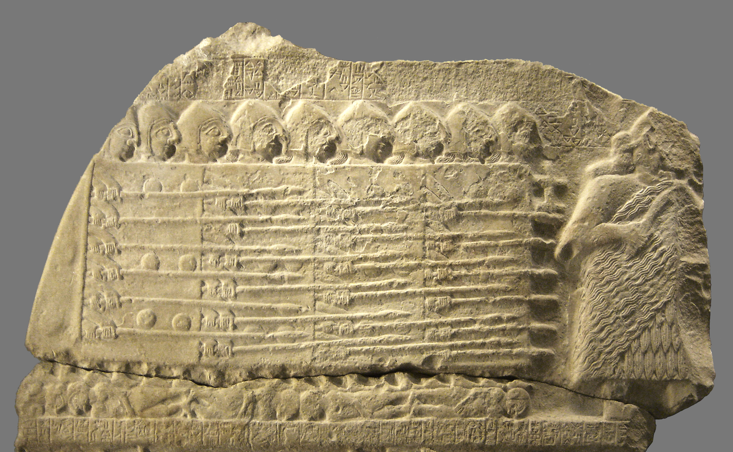 Detail of a fragment of the victory stele of the king Eannatum of Lagash over Umma, called « Stele of Vultures », showing the first evidence of a phalanx. Historical side. Limestone, circa 2450 BC, Sumerian archaic dynasties. Found in 1881 in Girsu (now Tello, Iraq), Mesopotamia, by Édouard de Sarzec.